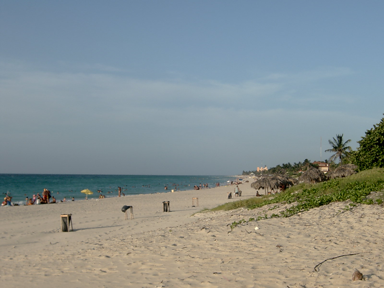 beach in Varadero, one of the most famous in Cuba